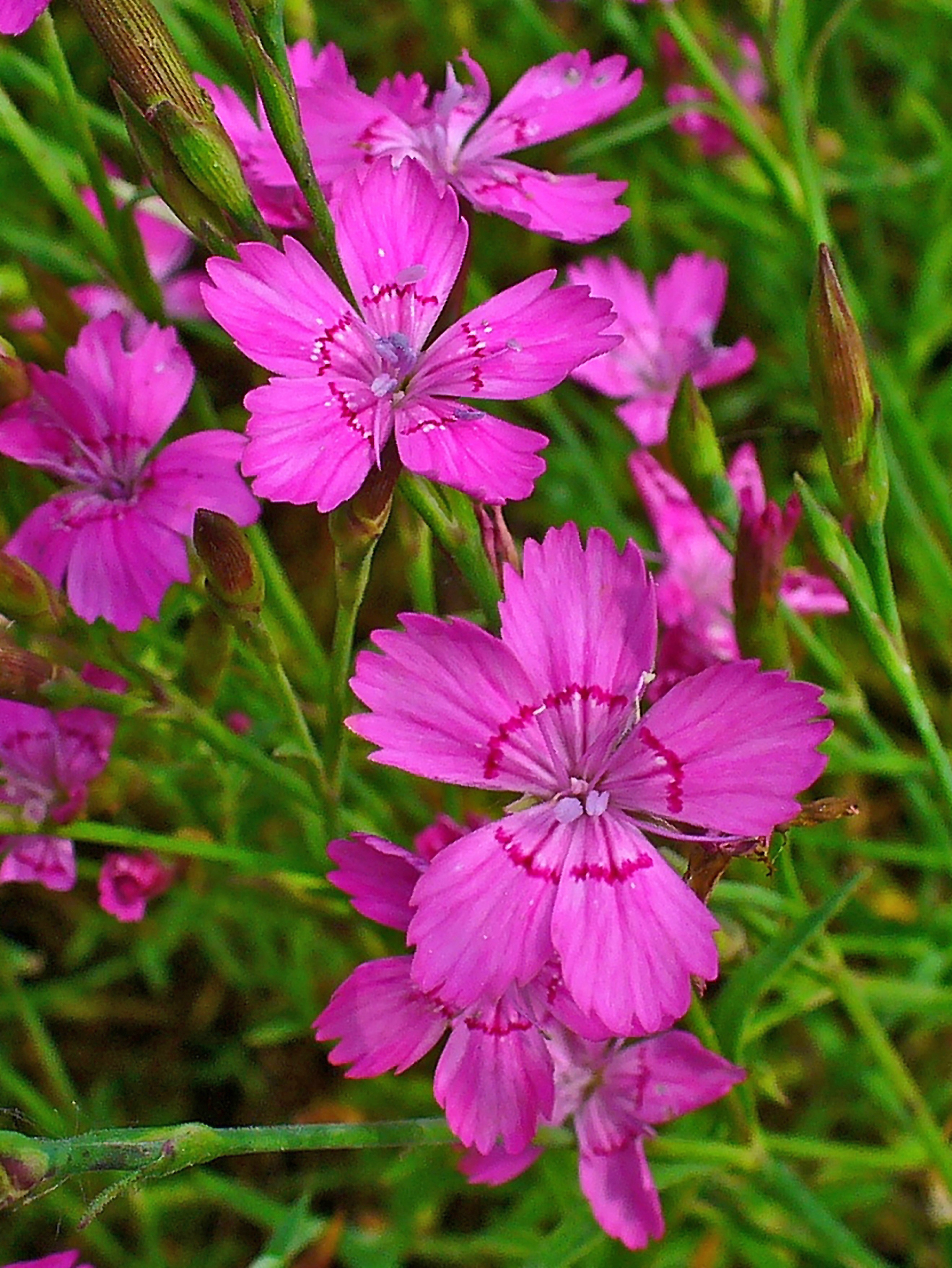 Dianthus deltoides, Caryophyllaceae, Maiden Pink, flowers; Botanical Garden KIT, Karlsruhe, Germany.